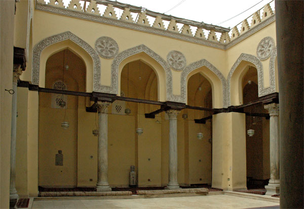 Al-Aqmar Mosque. Cairo. Egypt